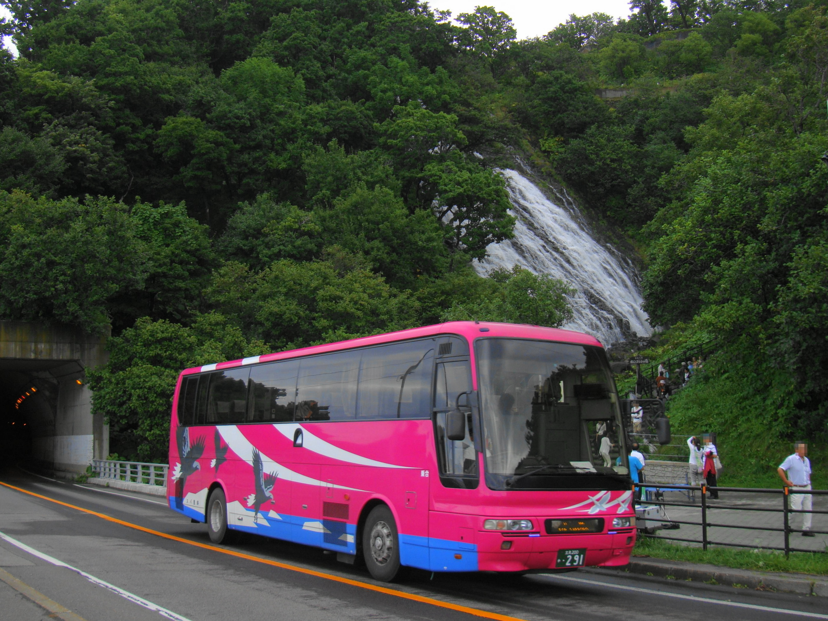 "Eagle Liner" Shiretoko National Park to Sapporo